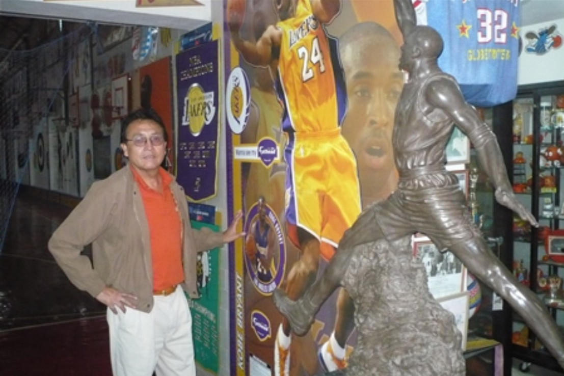 Foto de La Canasta con su Director